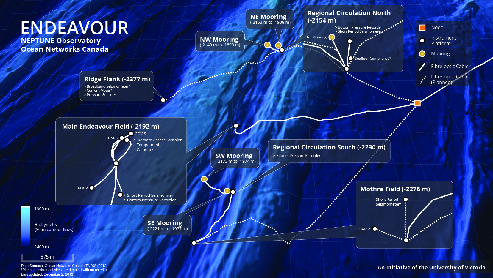 2013 map of Ocean Networks Canada installations along the Endeavour segment of the Juan de Fuca mid-ocean ridge in the northeast Pacific. This site is part of the NEPTUNE observatory.